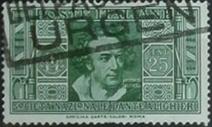 serie società pro-DanteAlighieri - francobolli del Regno d'Italia - 1932 - Vittorio Alfieri - stamps of the kingdom of Italy